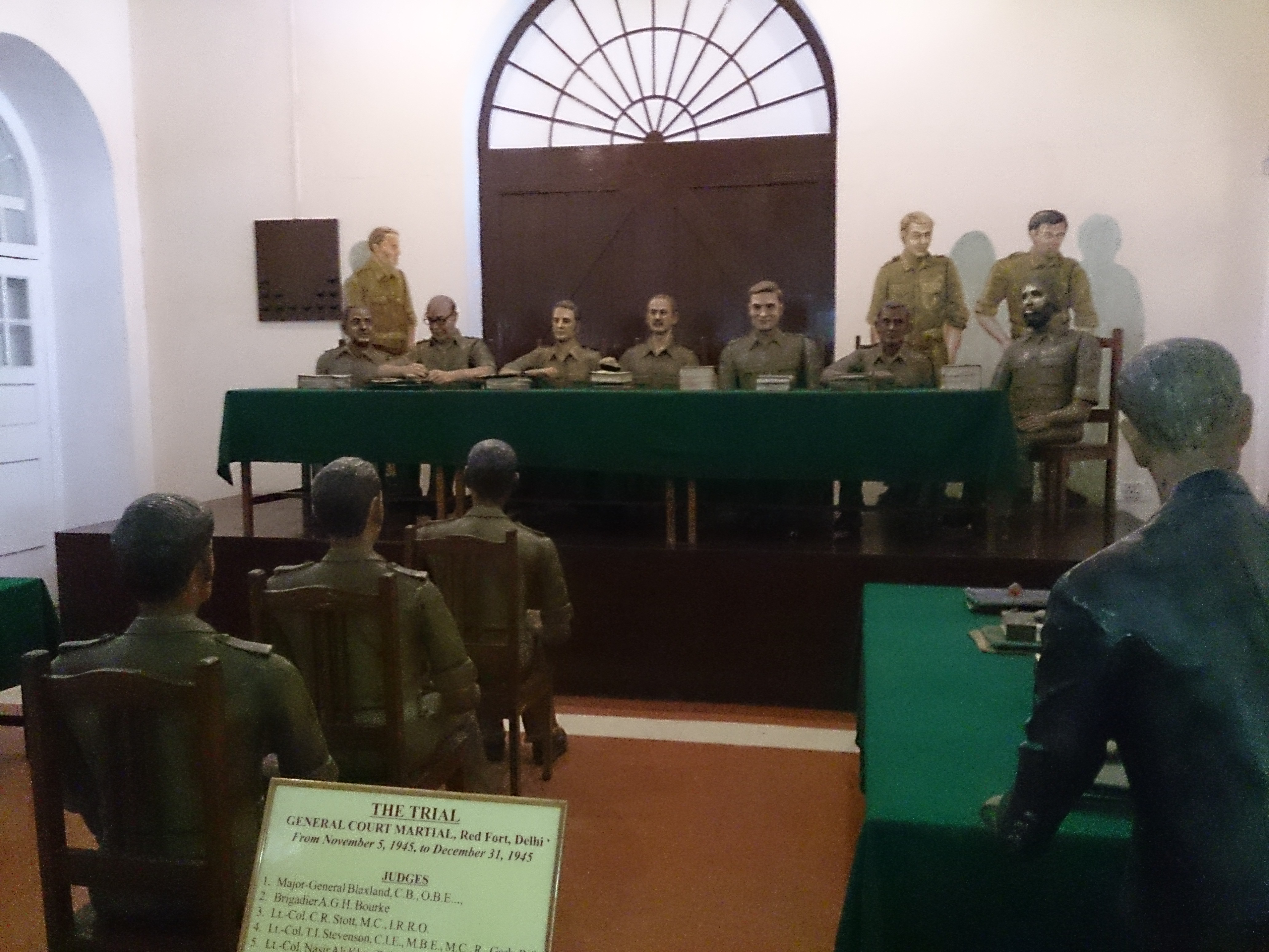 trial